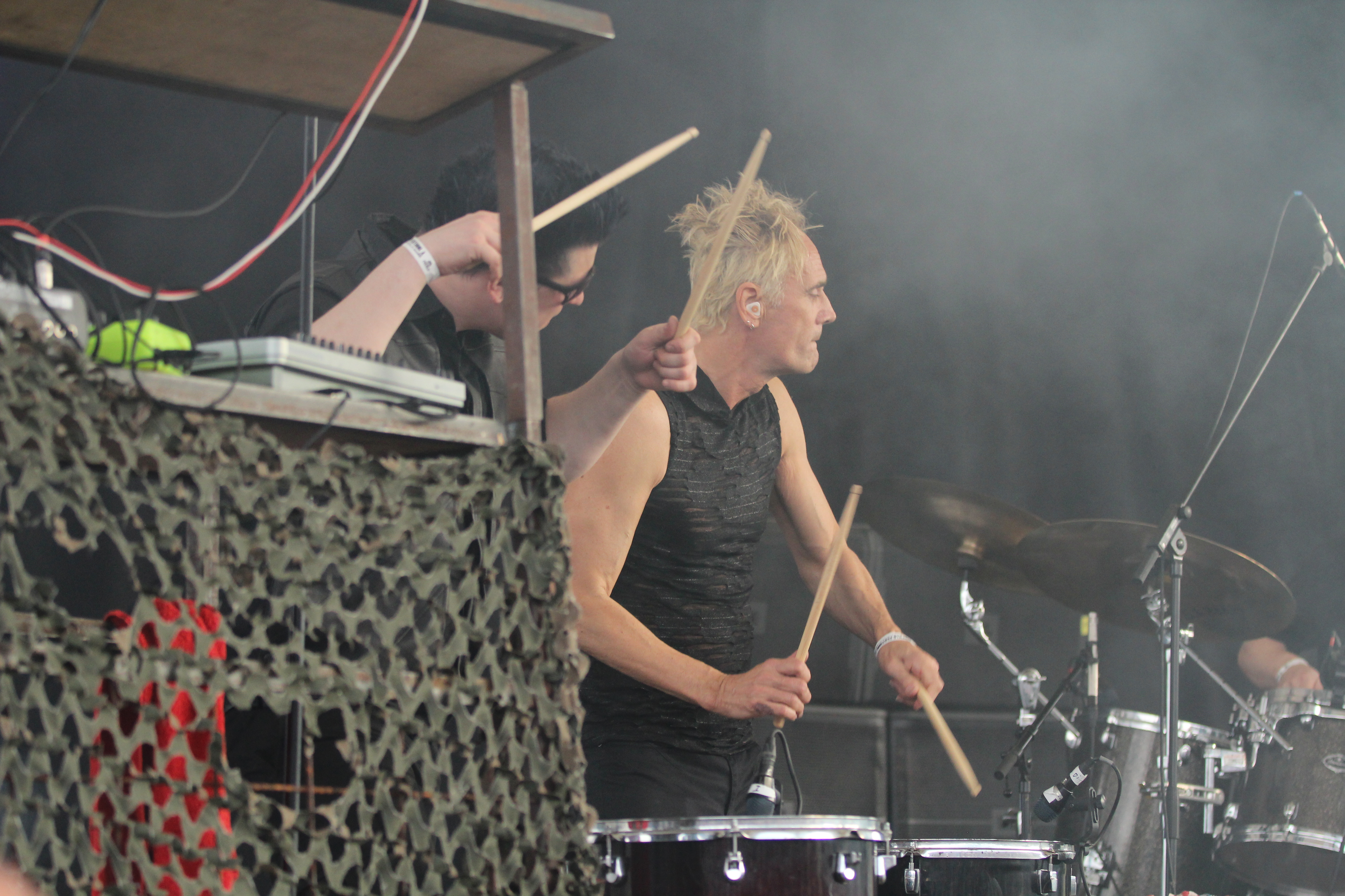 The Canadian electronica band Front Line Assembly at the Blackfield festival 2014 in Gelsenkirchen